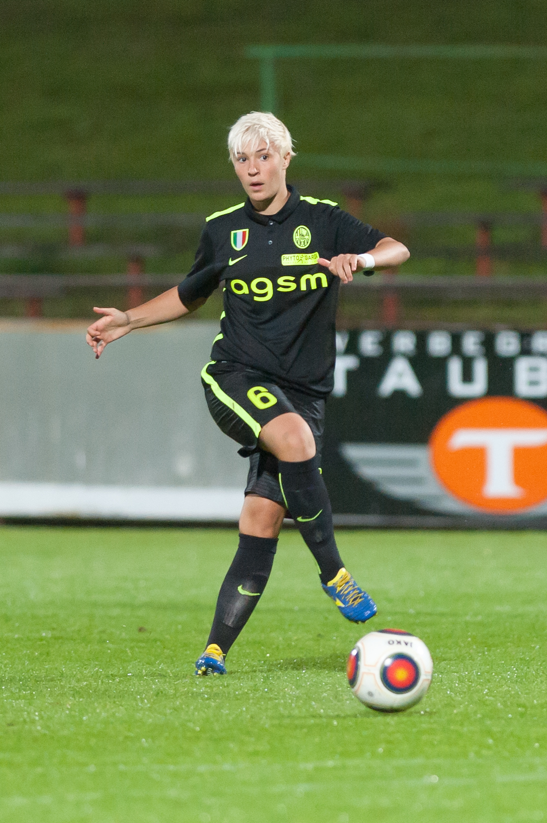 UEFA Women's Champions League FSK St. Pölten-Spratzern vs ASF CF Verona, St. Pölten, 2015-10-07